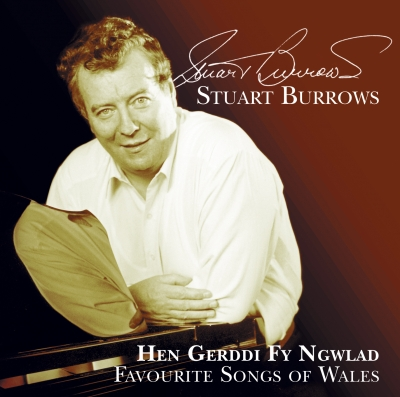 Artwork for the Album Hen Gerddi Fy Ngwlad / Favourite Songs Of Wales by Stuart Burrows